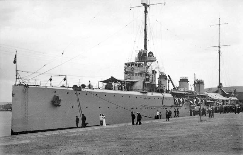 Italian cruiser Quarto, part of the 6th Naval Division, during a visit to Varna on 7 July 1932